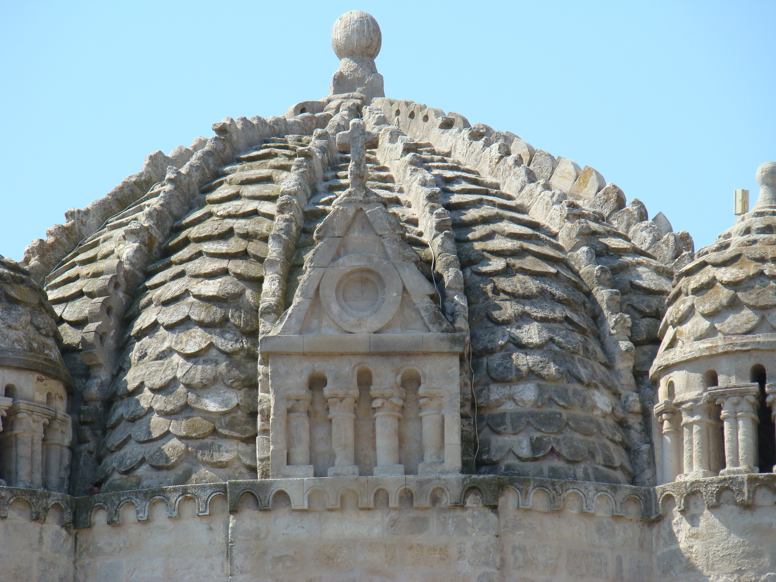 Detail of the cupule of the romanic cathedral in Zamora (Spain).